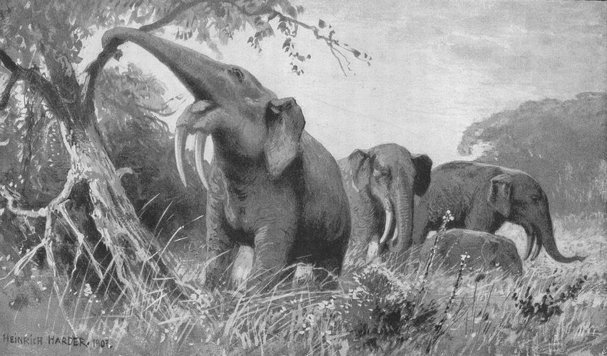 The Wonderful Paleo Art of Heinrich Harder - Prehistoric Animals from 1908 in Tierbuch by Wilhelm Bolsche